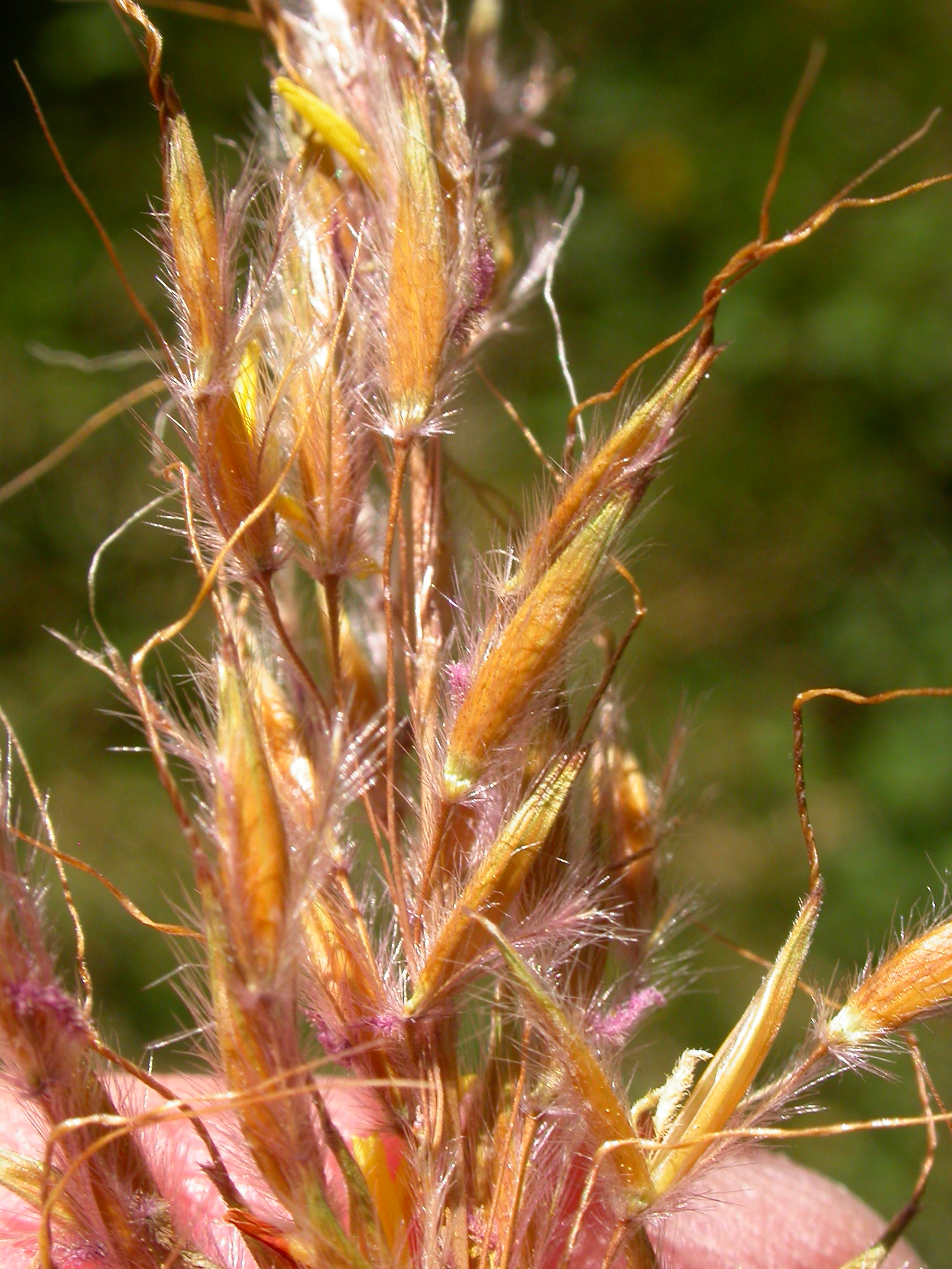 The inflorescence comprises a panicle of spikelet pairs (sessile and pedicellate), but in Sorghastrum the pedicellate spikelet is reduced to nothing so only sessile spikelets are present.